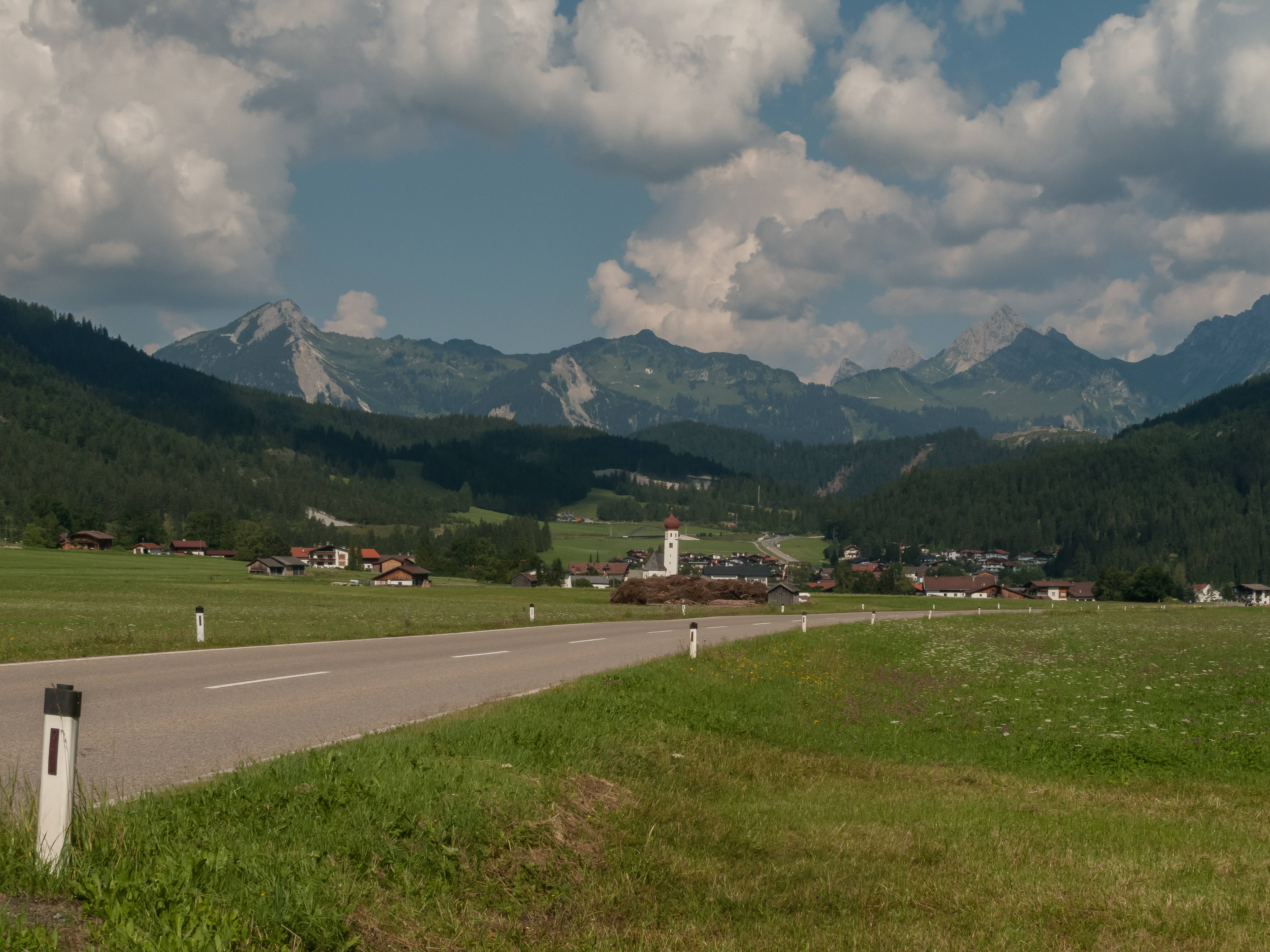 Heiterwang, view to the village